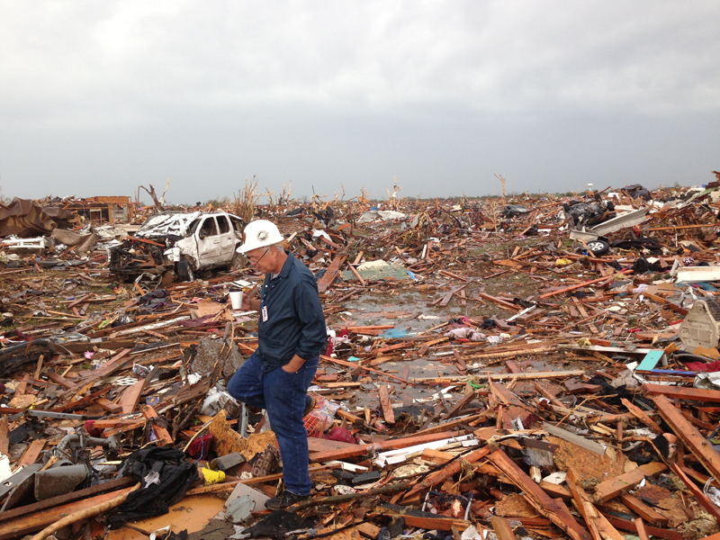 Meteorologist and civil engineer Tim Marshall surveys the remains of a residential neighborhood that was entirely flattened by the tornado.